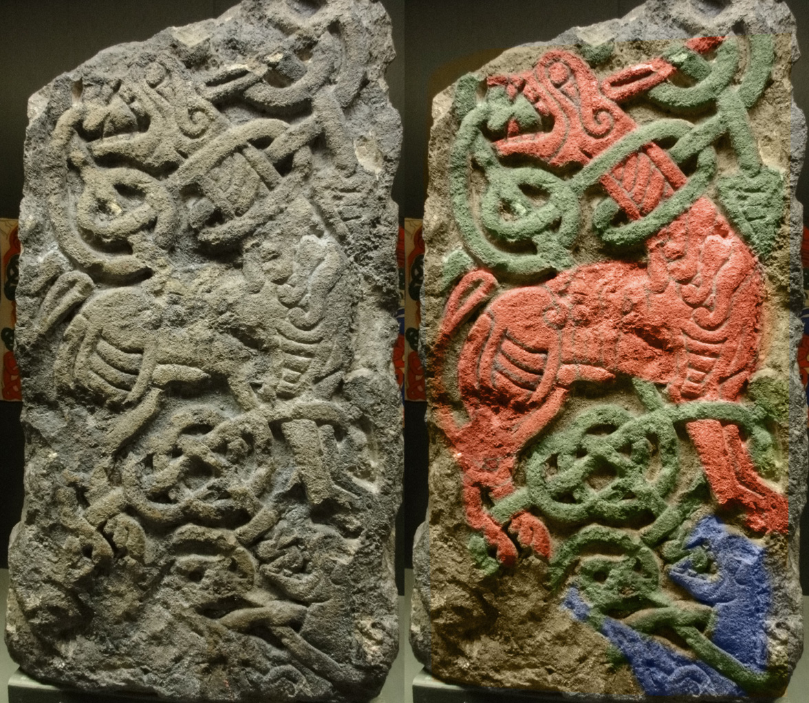 Original in the Gloucester City museum. Left hand shows original and right hand shows false colour version to pick out the figures and knots. Found in a wall near St. Oswald's Priory, Gloucester, this cross fragment is dated to the 9th Century.